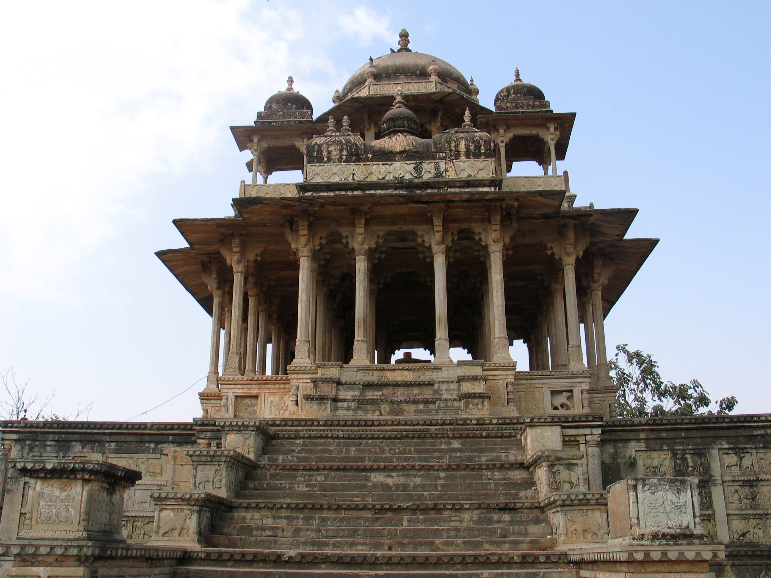 Chaurasi Khambon ki Chhatri, also called 84-Pillared Cenotaph, Bundi, Rajasthan, India